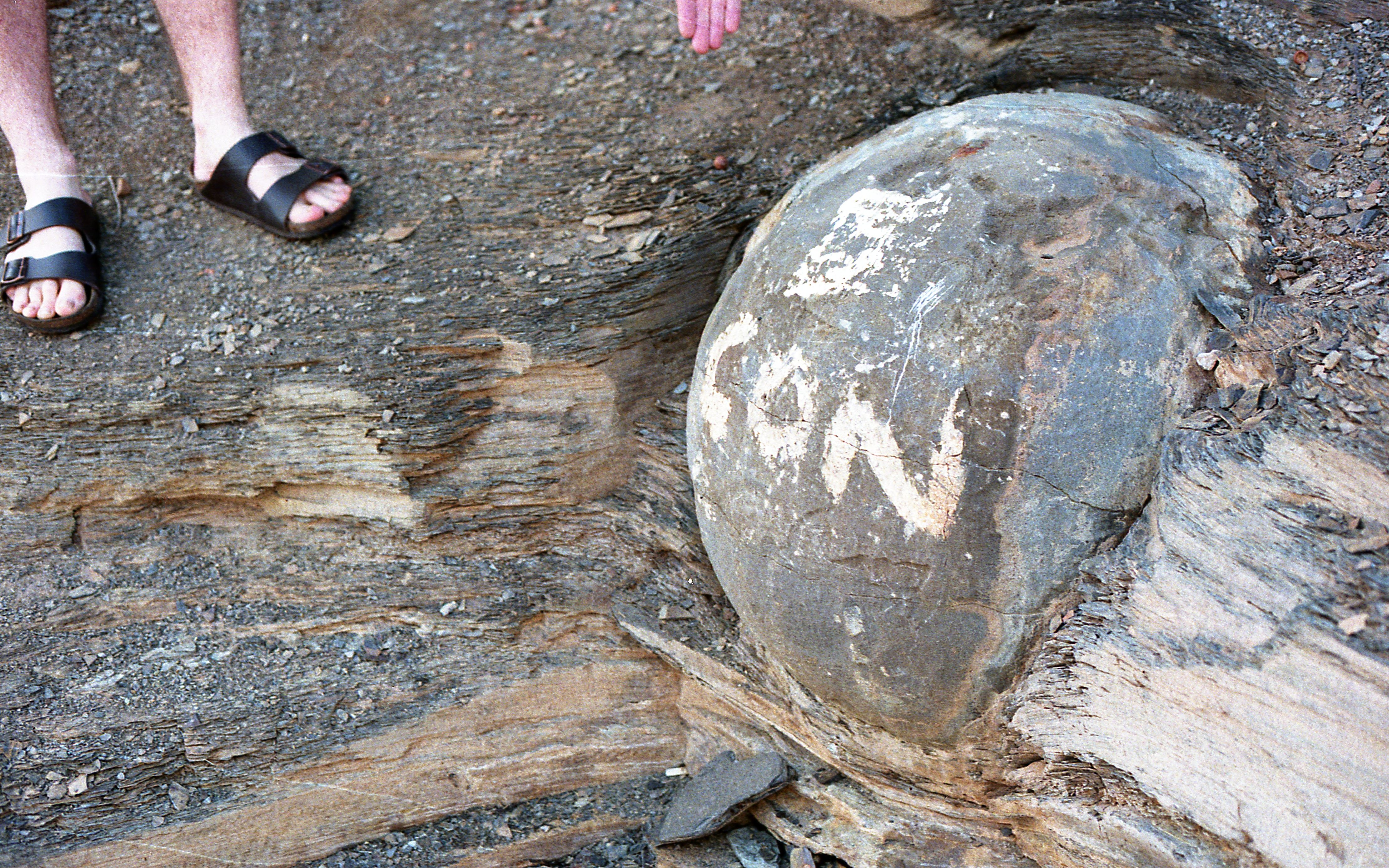 Kettle Point concretions - large stone - with grafitti